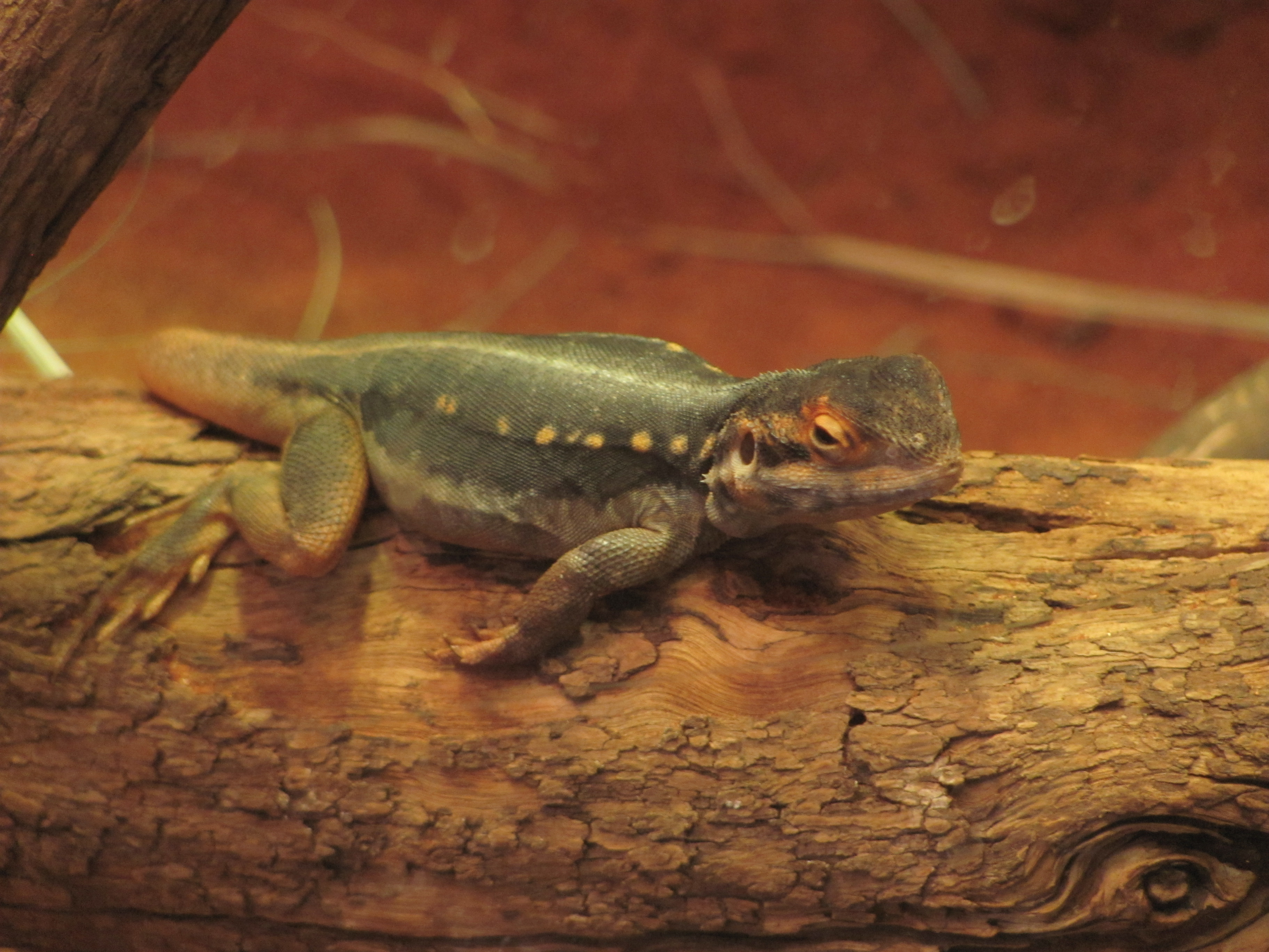 Tawny Crevice Dragon (Ctenophorus decresii)